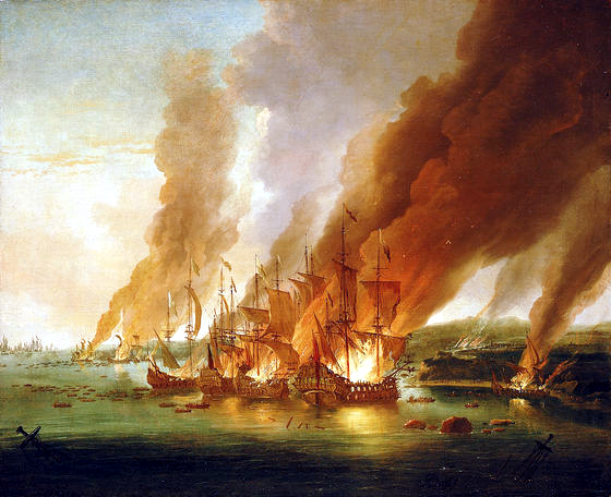 1692. Part of the Nine Years' War (1688-97)